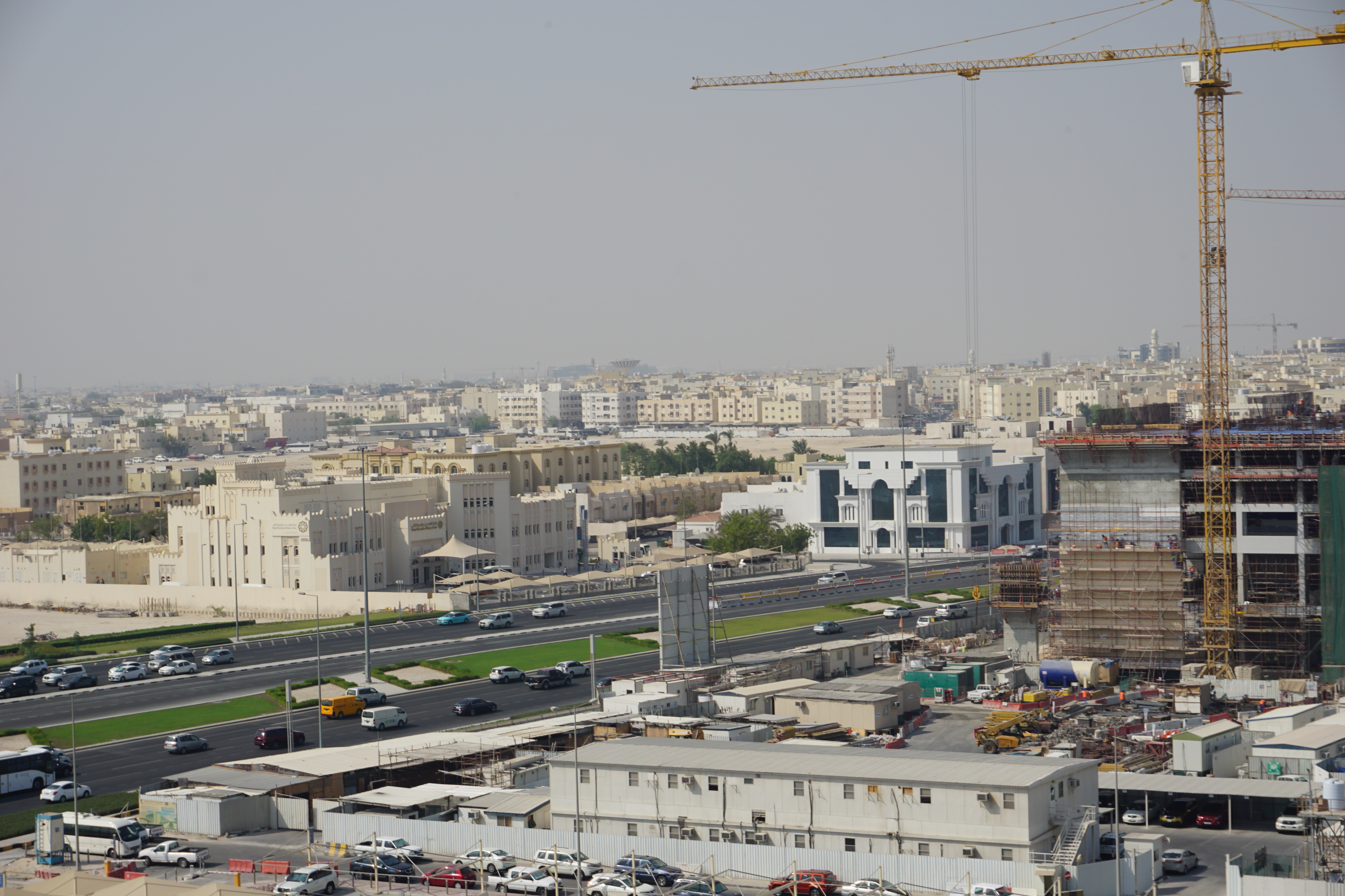 Fahad Bin Jassim Kidney Center at the corner of Mohammed Bin Thani Street (center, with the grass median) and Al Rasheed Street in the New Al Hitmi district of Doha, Qatar.